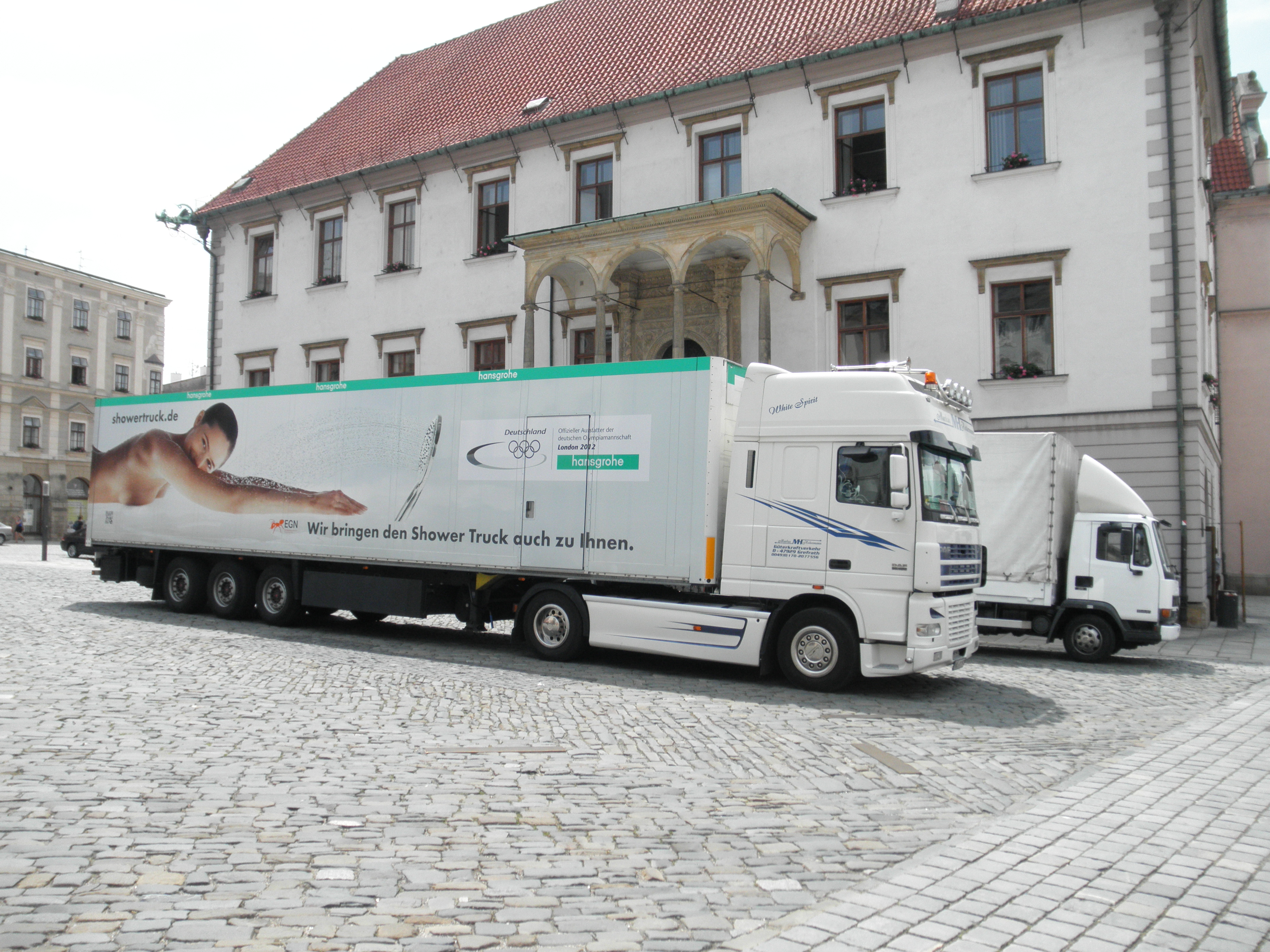 DAF truck with showers by Hansgrohe. There are Olympic rings and there is written in German language: "Official supplier of the German Olympic team London 2012". There is also a logo (with the orange ant) of "EGN Entsorgungsgesellschaft Niederrhein mbH". Photo taken in Upper square next to town hall, Olomouc.